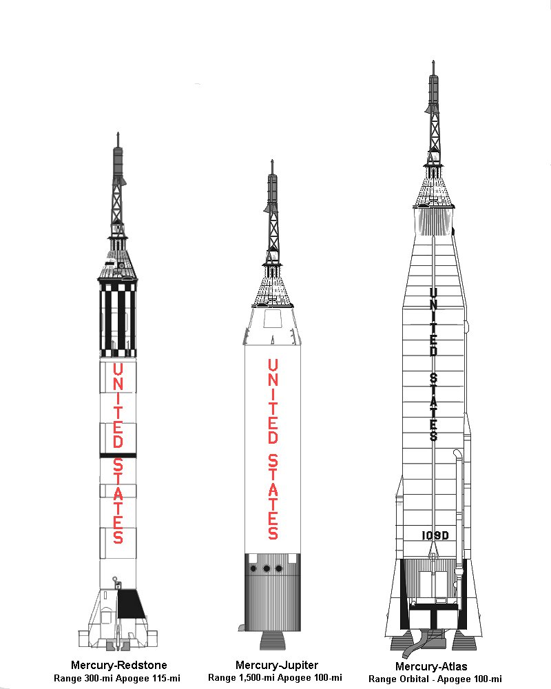 jupiter_atlas_redstone rockets comparison